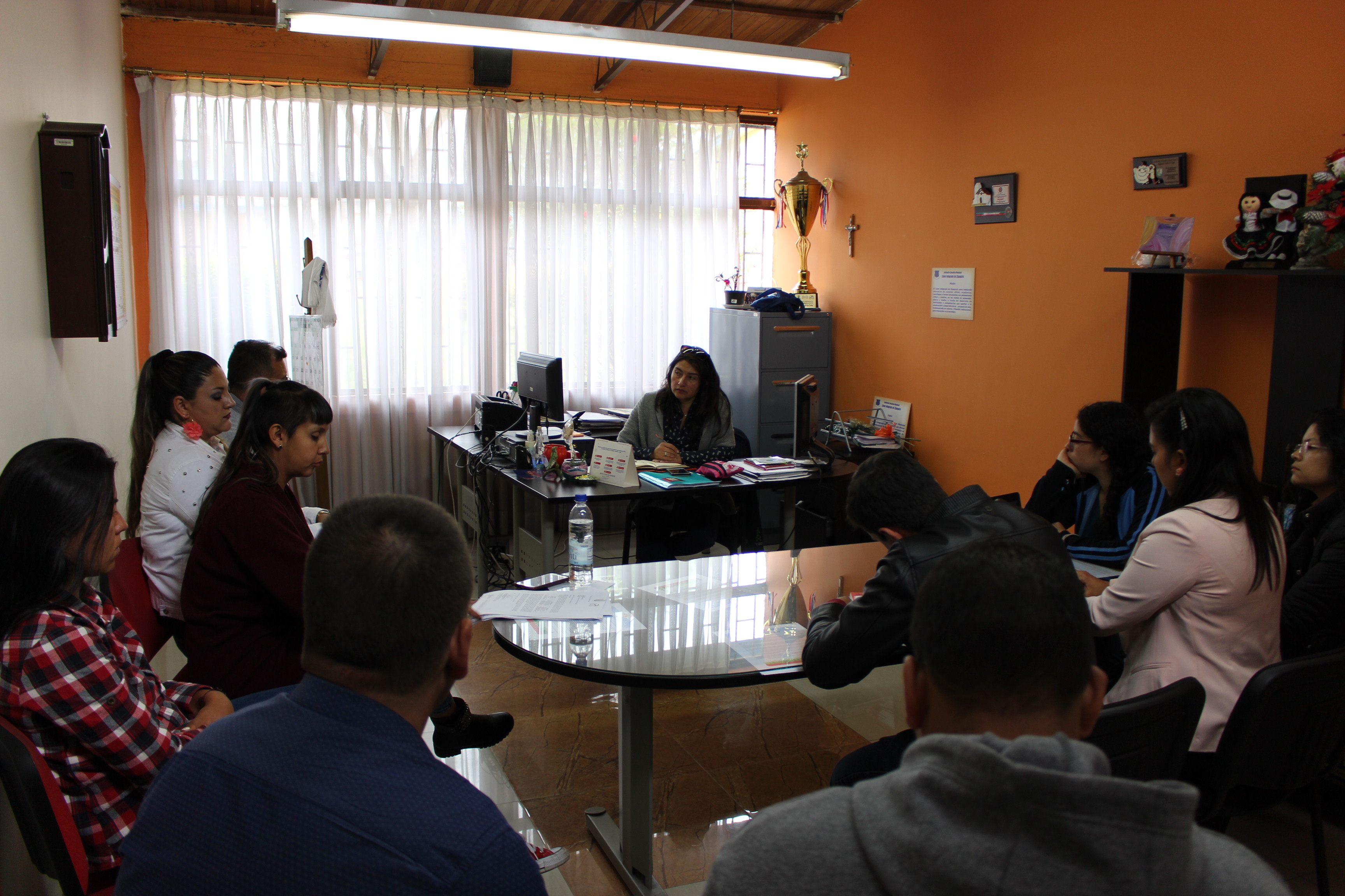 Reunión con rectores